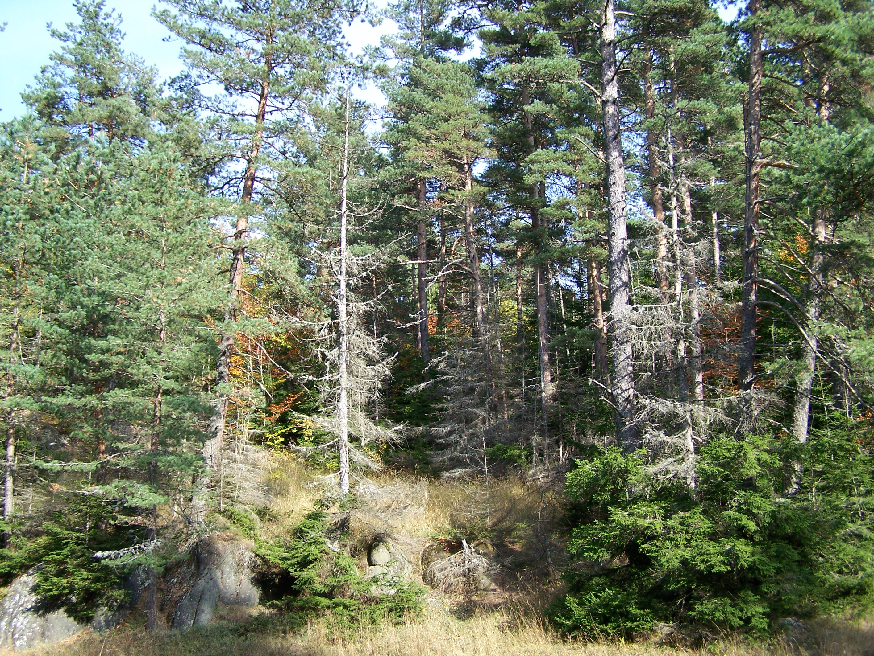 Algeti National Park (13 October 2007). 010